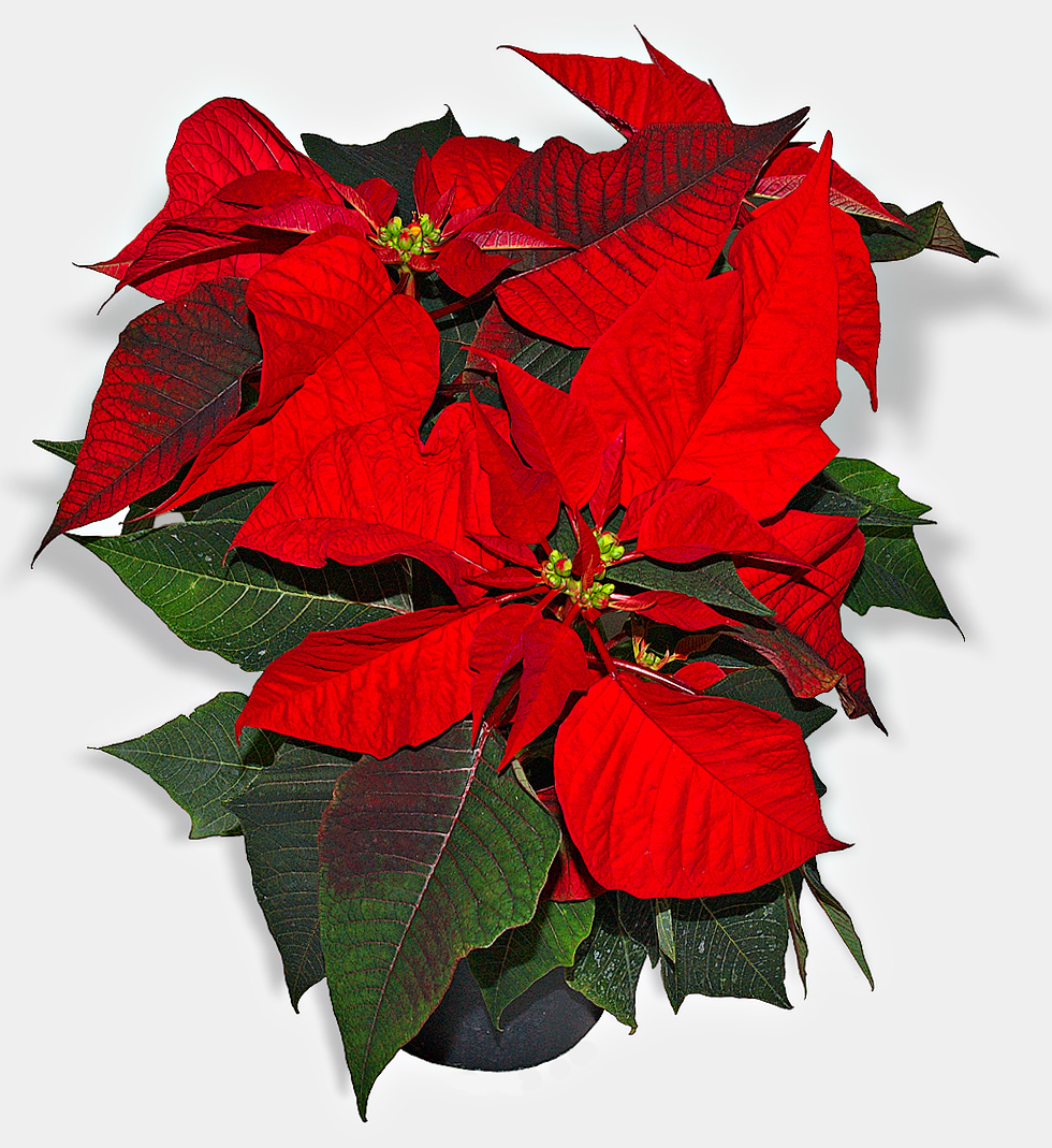 This image shows a red Poinsettia (Euphorbia pulcherrima).